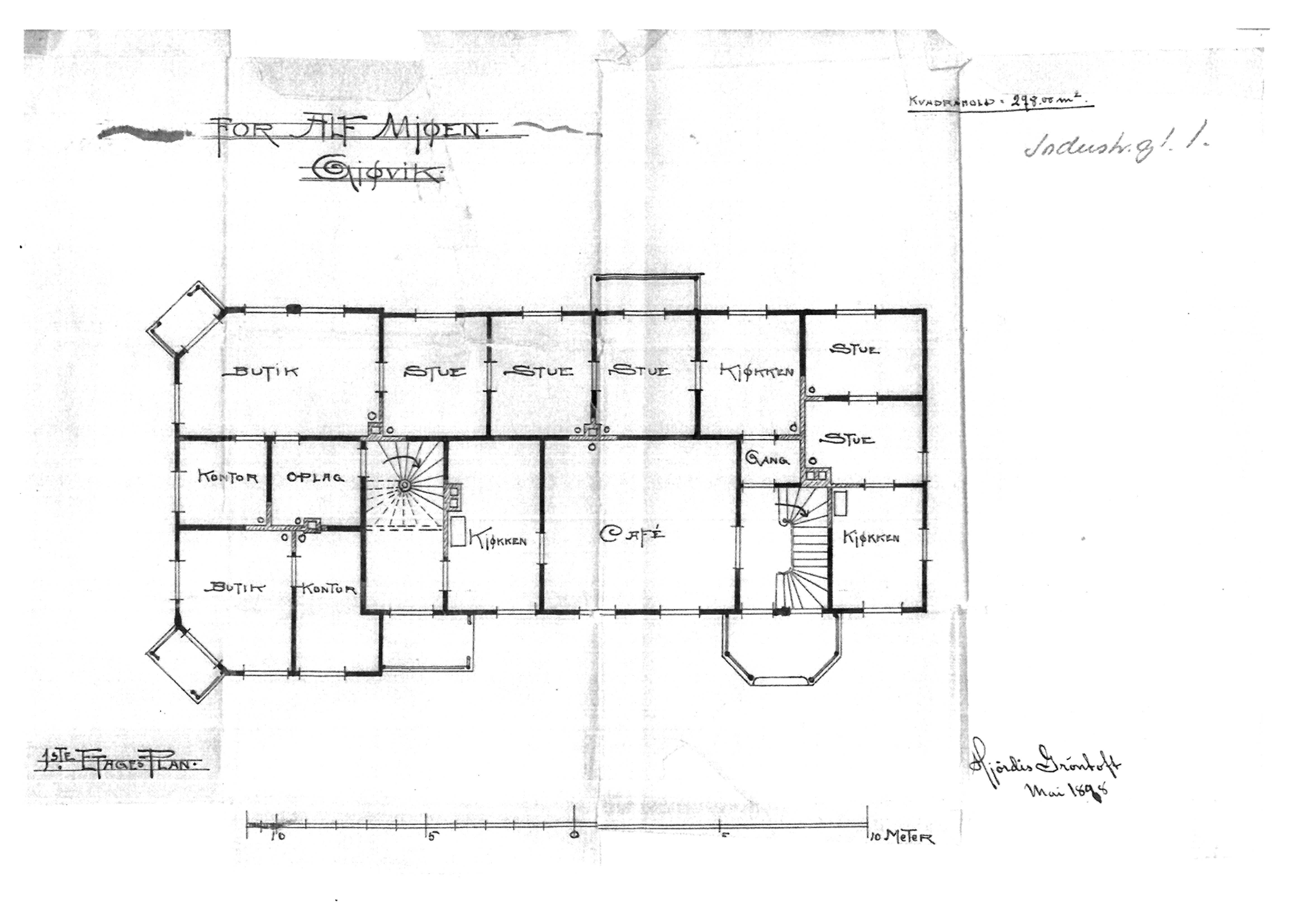 First floor room plan of Sandsgården in Gjøvik, Norway, signed Hjørdis Grøntoft and dated 1898